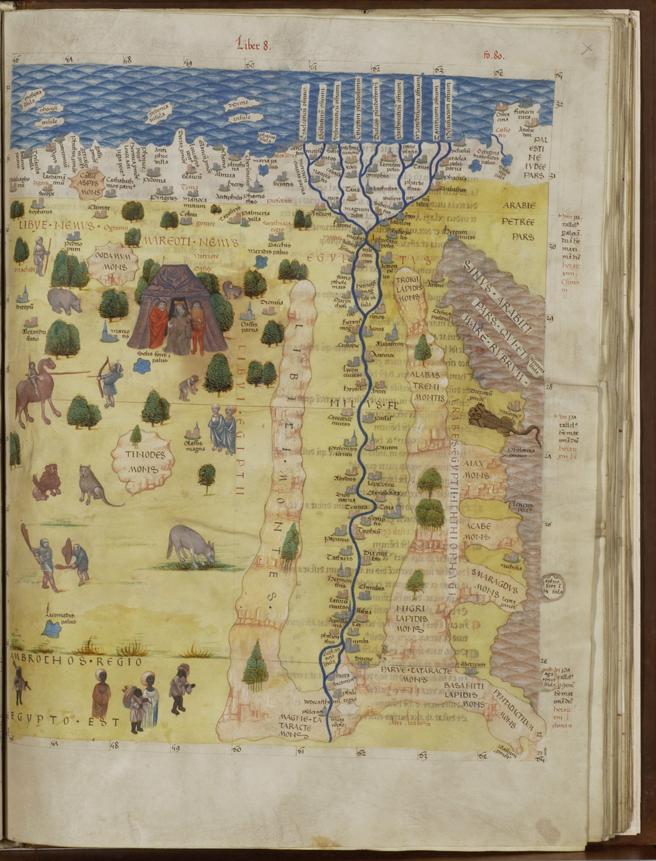 Ptolomean map of Egypt; Geographia, KBR ms. 14887, fol. 80